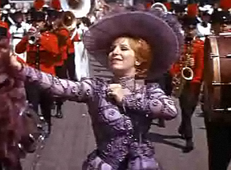 Screenshot of Barbra Streisand from the trailer for the film Hello, Dolly! (film)